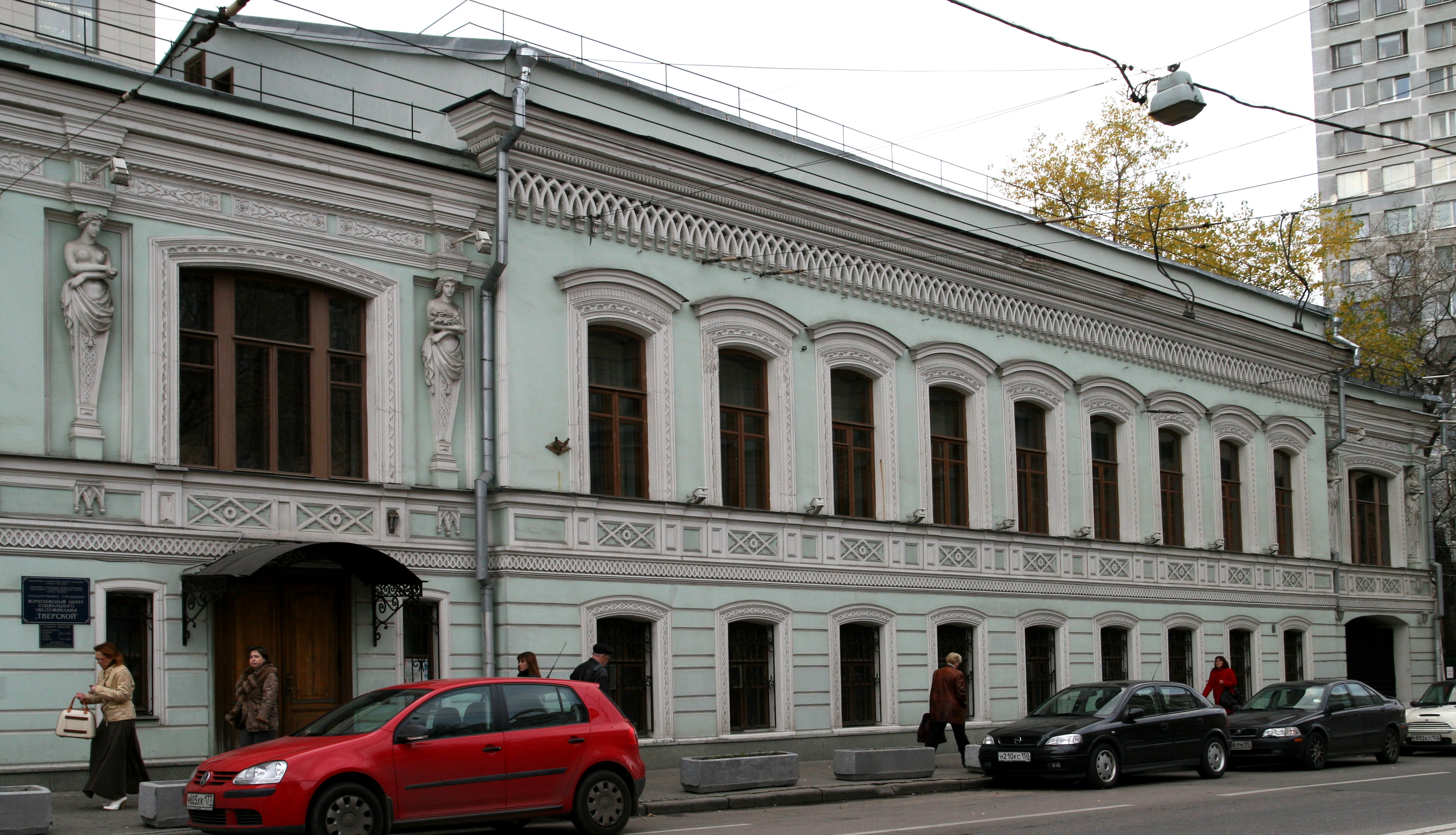 Moscow, Malaya Dmitrovka Street 27